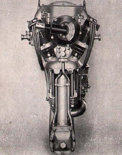 FIAT A.60 aircraft engine